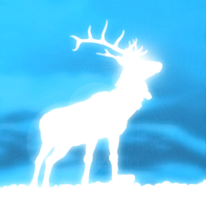 Harry Potter's deer-shaped patronus